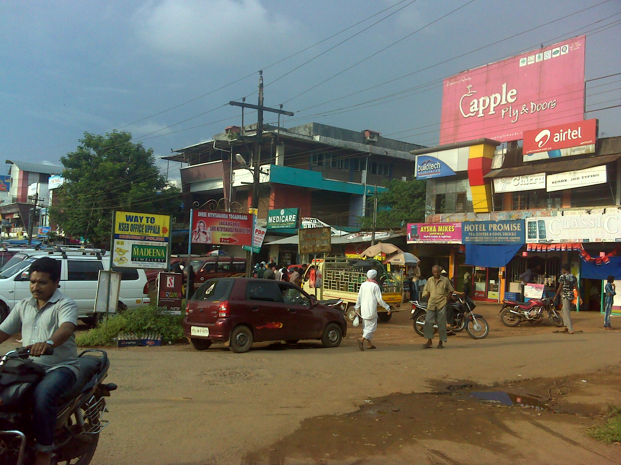 Uppala center